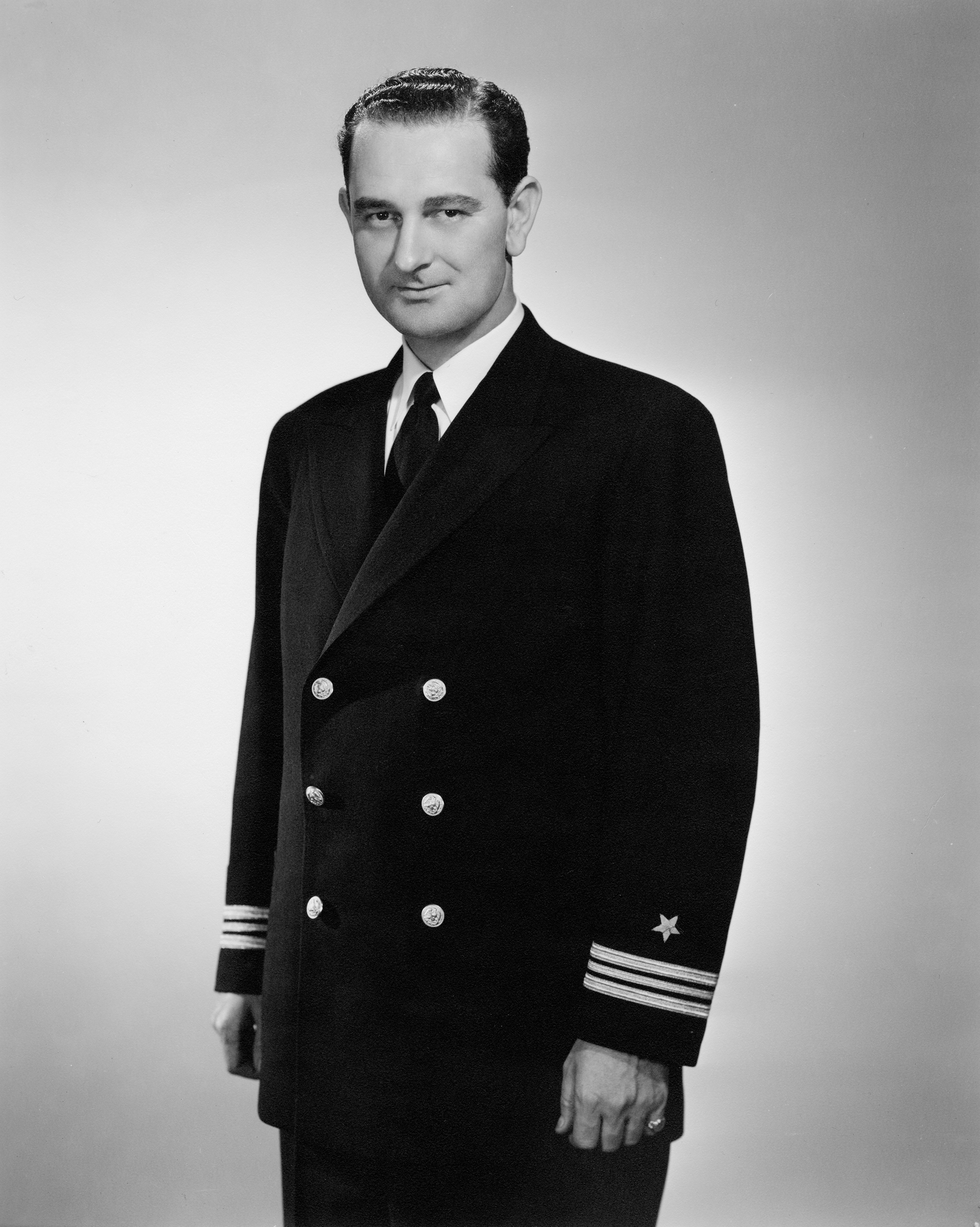 Lyndon Baines Johnson in navy uniform.